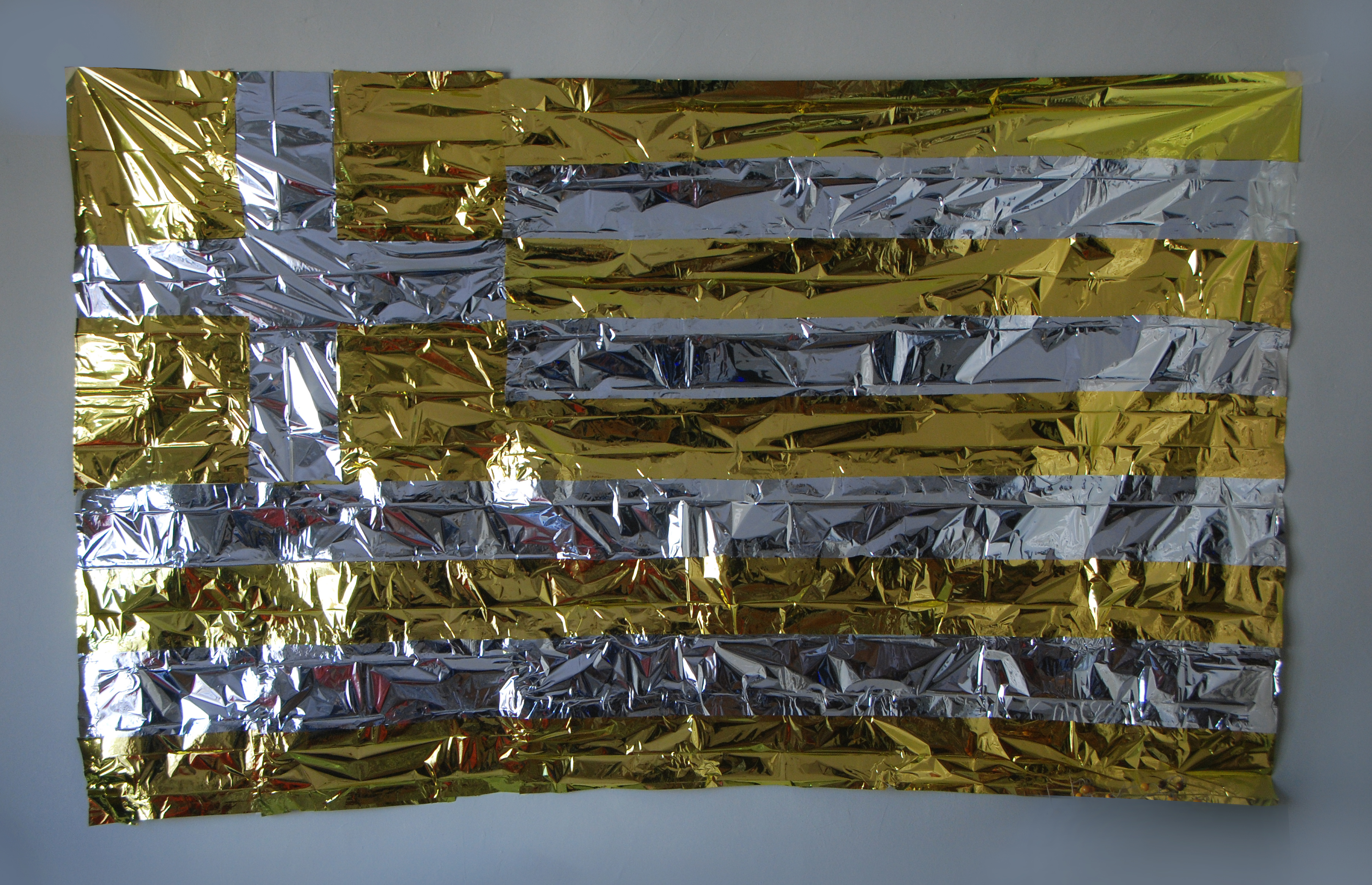 Emergency thermal blanket, 160x100cm, thermal blanket installation, Dionisis Christofilogiannis, 2016 The Greek flag installation made of by two sides of the thermal blanket used for the Refugees is a Homage to those on frontline of refugee crisis be commended for their passion and self-sacrifice. Η εγκατάσταση της Ελληνικής σημαίας κατασκευασμένη από τις δύο πλευρές της θερμικής κουβέρτας που χρησιμοποιείται για τους Πρόσφυγες είναι ένα αφιέρωμα για όλους αυτούς της πρώτης γραμμής στην κρίση των προσφύγων, για την πάθος και αυτοθυσία τους.